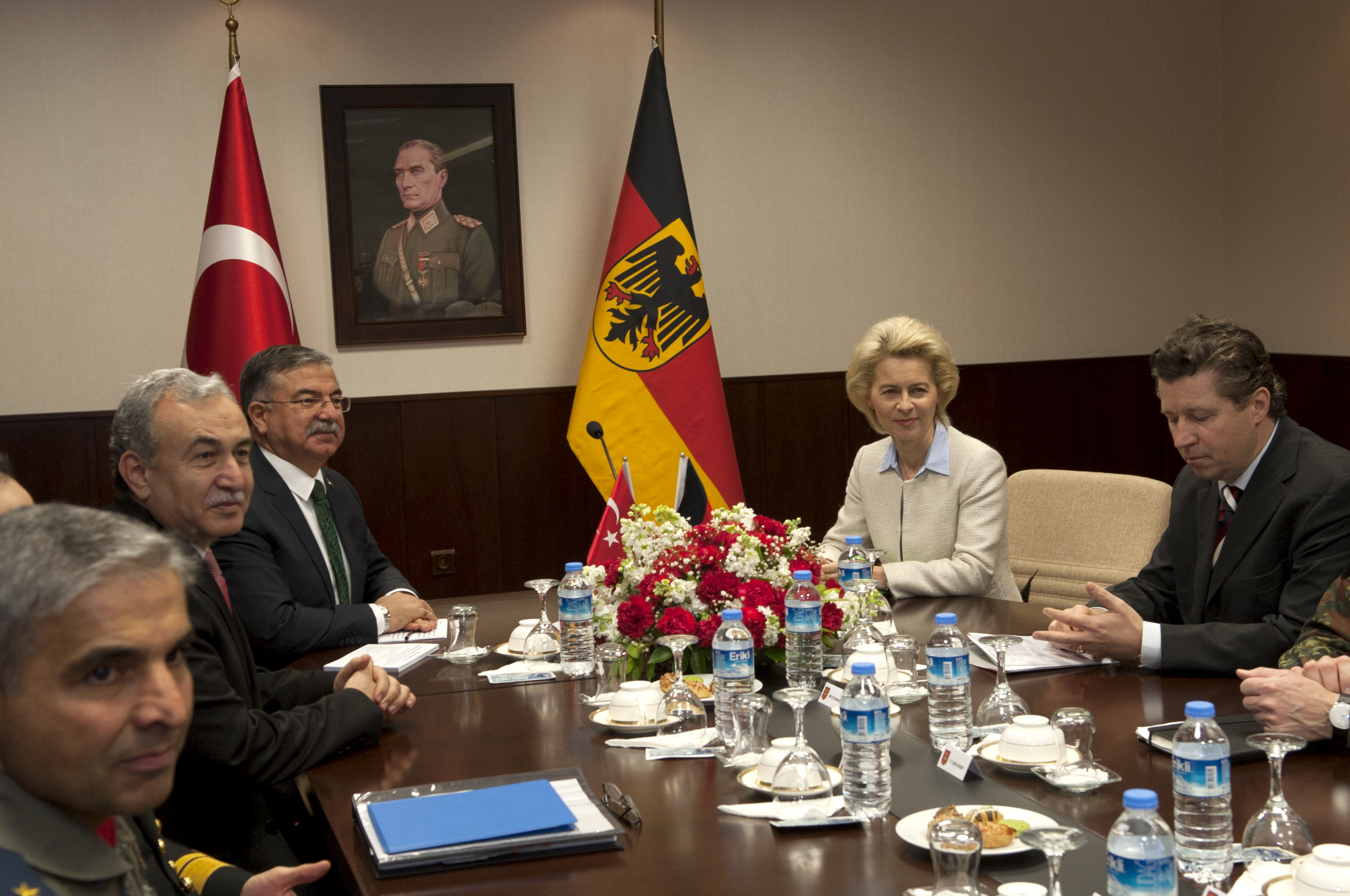 Turkish Minister of National Defense Ismet Yilmaz, left, and the German Federal Minister of Defense Ursula von der Leyeh sit at the head of a table during a briefing on the future objectives of coalition forces deployed to Incirlik Air Base, Turkey, during the German minister’s visit Jan. 21, 2016. Von der Leyeh came to Incirlik AB to visit with German forces deployed here and spoke on the importance of coalition partnership.